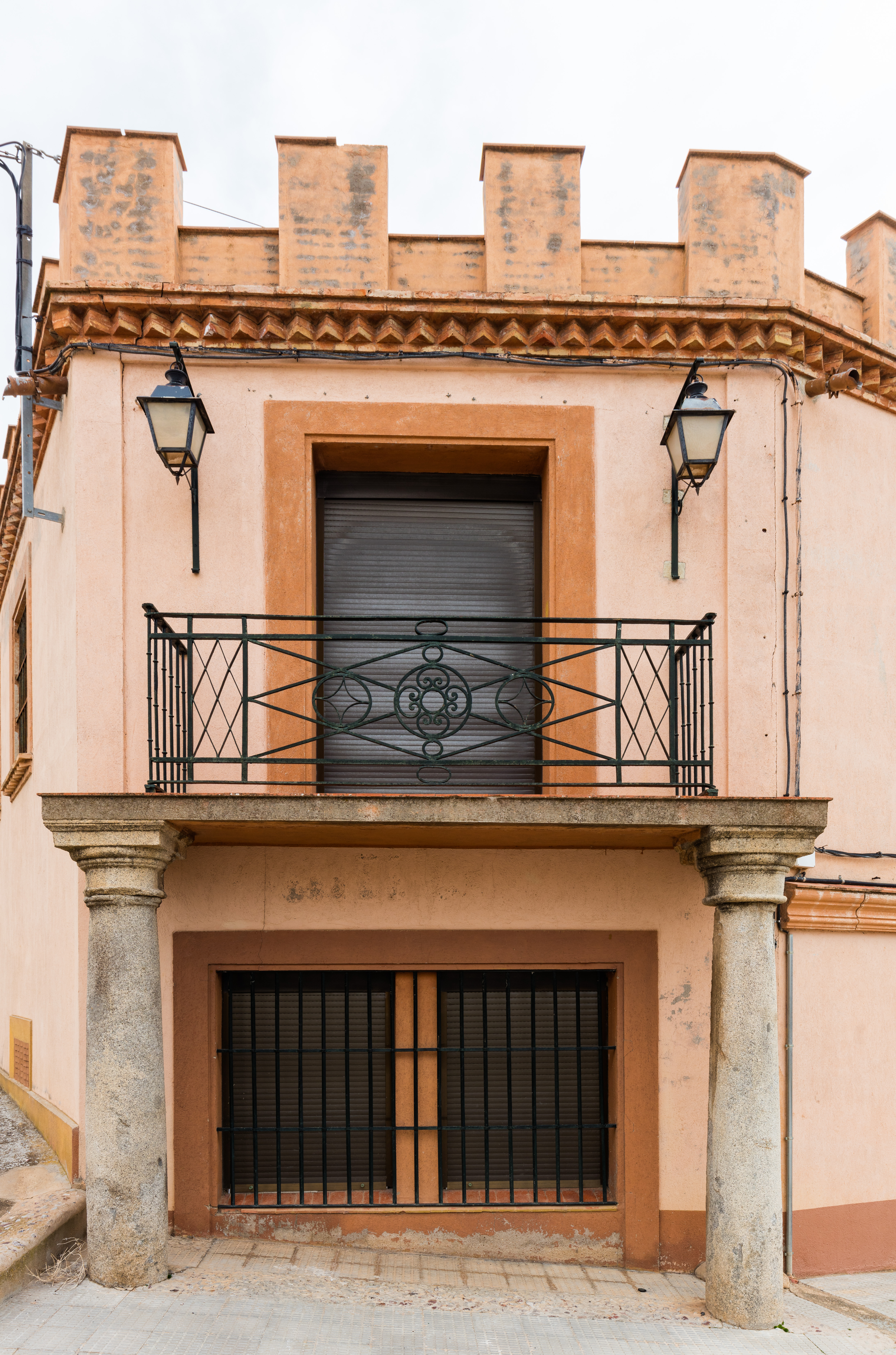 Palace house of the Marquess of Villa Huerta, Santa María de Huerta, Soria, Spain